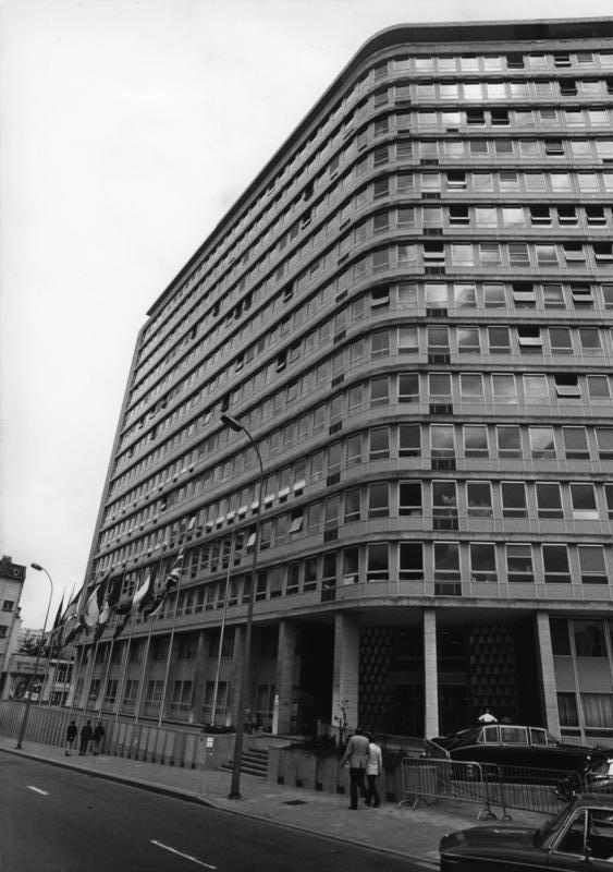 Charlemagne building of the Council of the European Union in 1975. It has now been renovated and is used by the European Commission's external relation's departments. See article for more detail and category for modern photos.